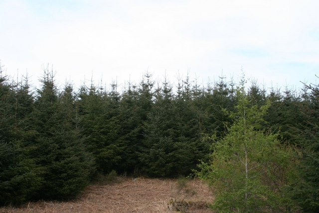 Good leader growth on Sitka spruce. Commercial Forestry